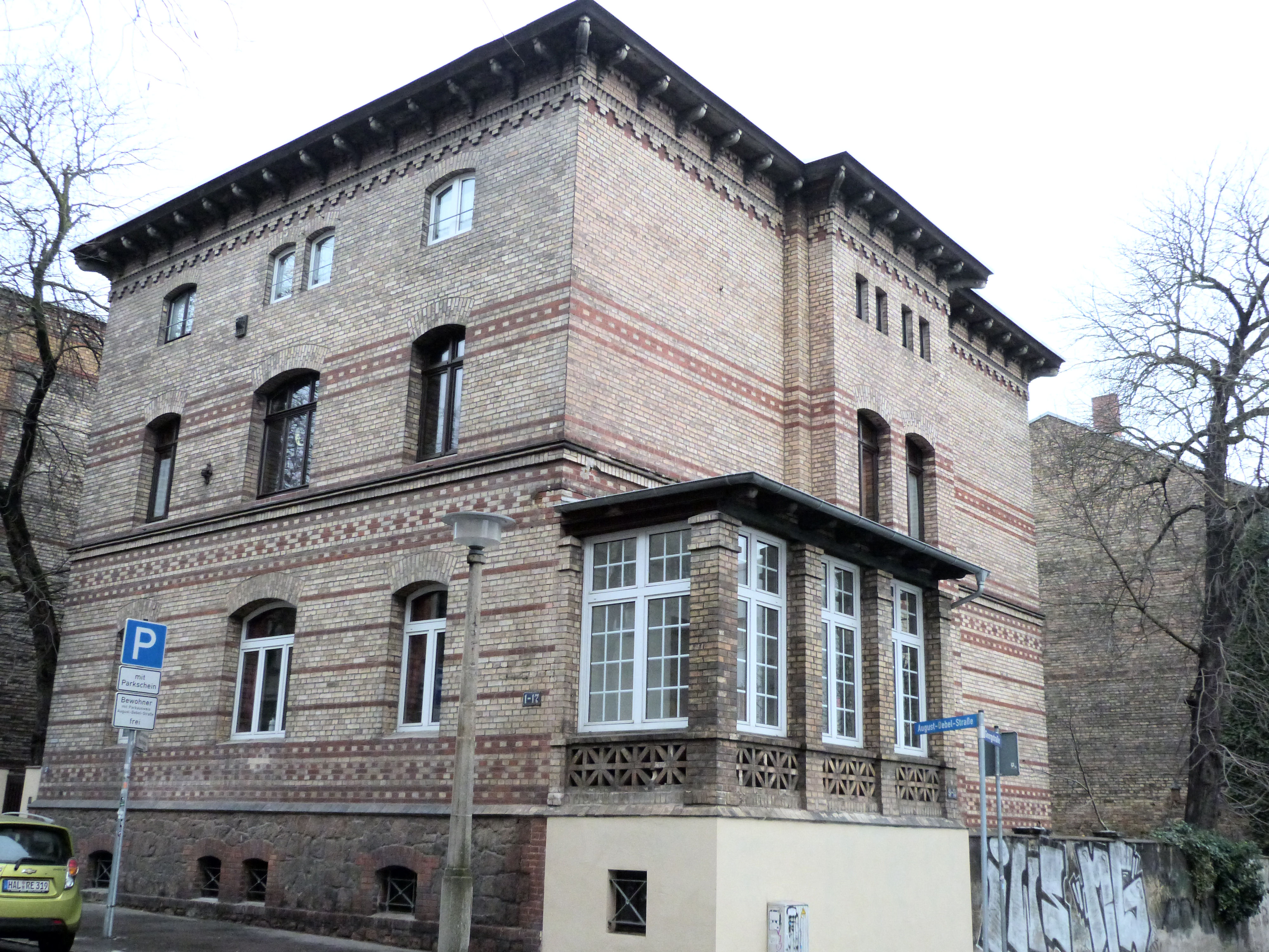 Villa Tiedemann, August-Bebel-Strasse No. 17, Halle (Saale)